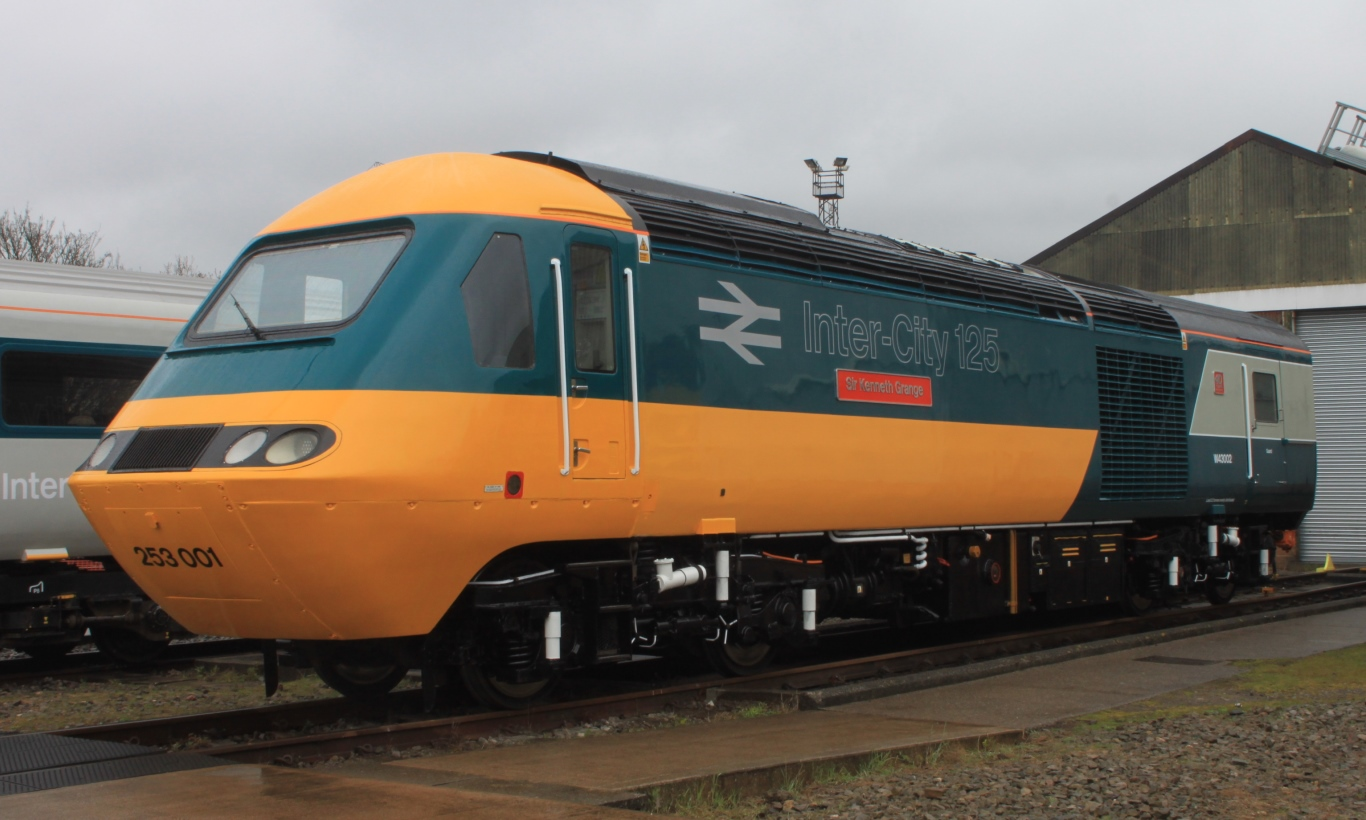 Unveiled at Bristol in its original InterCity 125 livery on 2 May 2016 is power car 43002 (initially from train 253001). It was also named this day Sir Kenneth Grange after its designer.